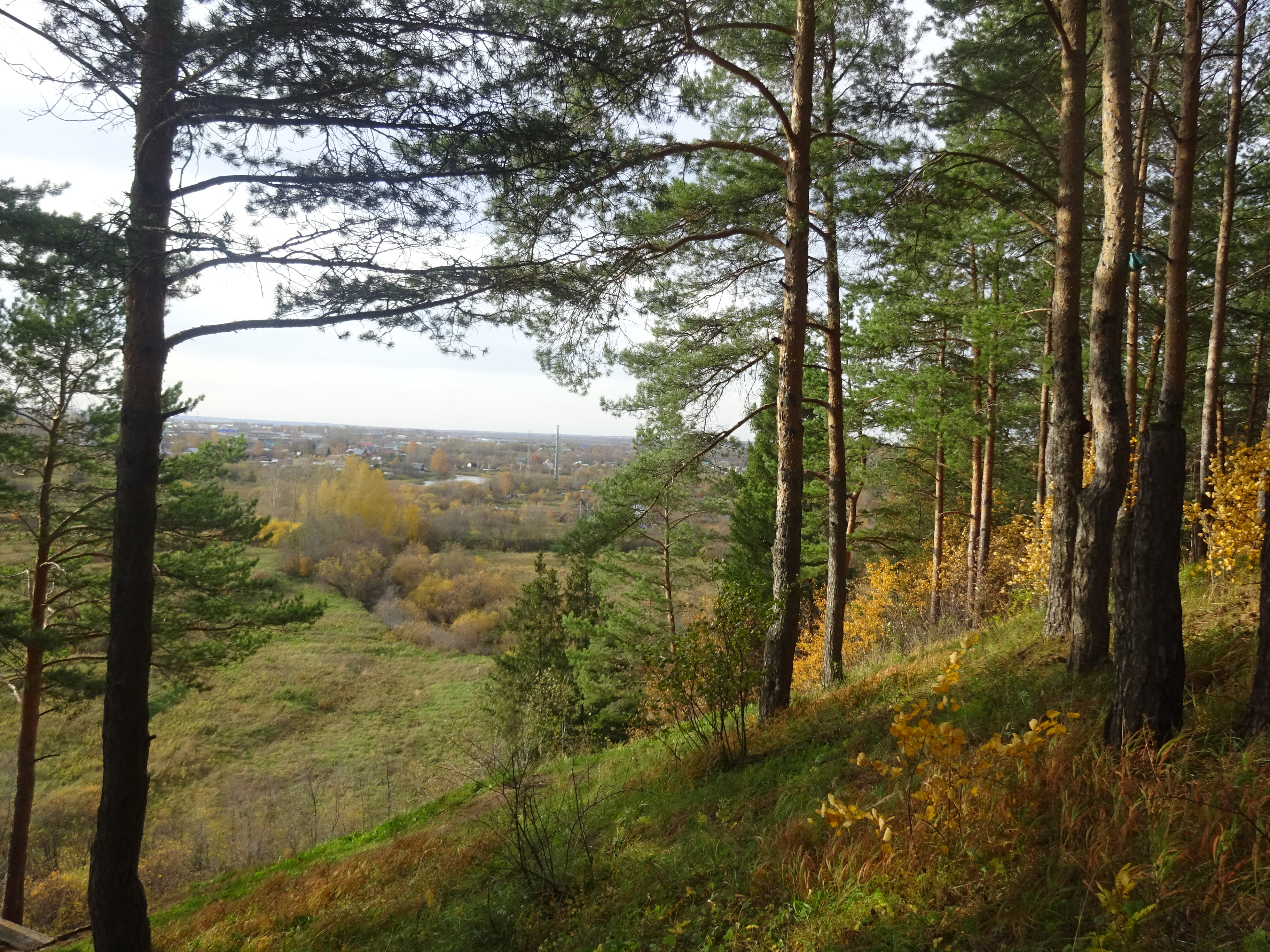 Andronovsky forest in Perm